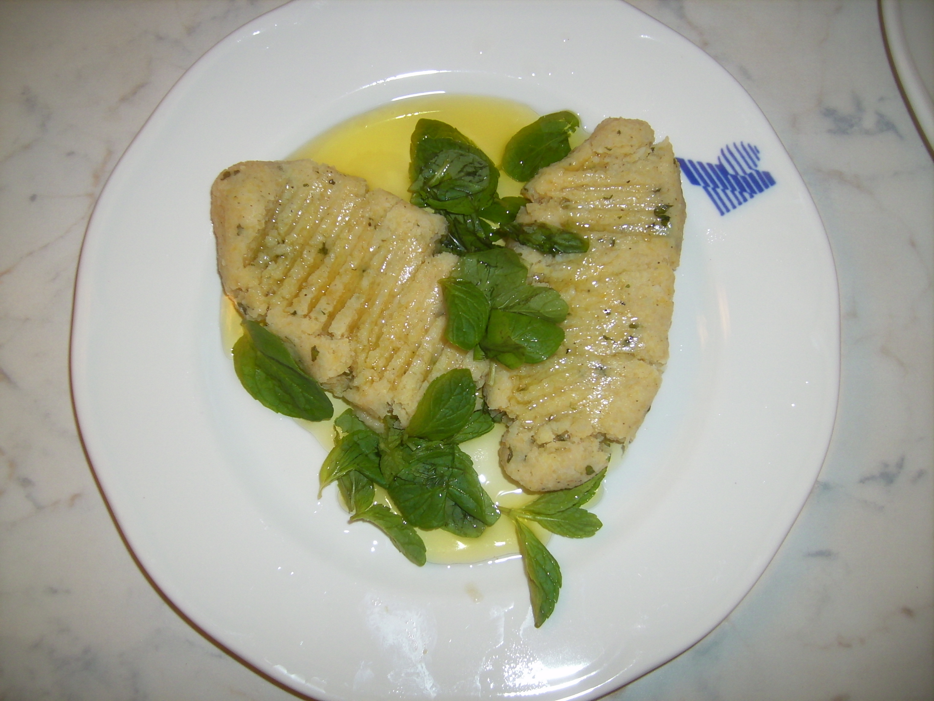 Kibbet Batata (potato kibbeh)